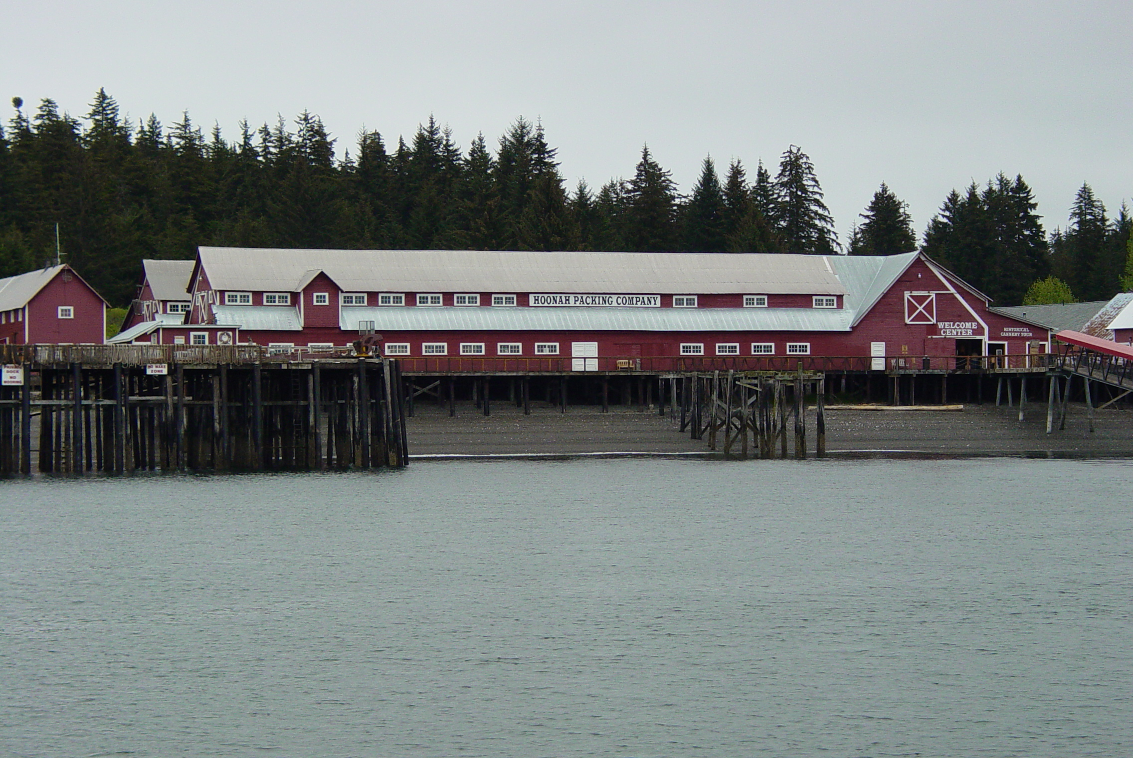 Salmon Cannery, now a museum "They had nice displays of canning operations, with the history of the plant and the equipment. They have a place where they use the old equipment to vacuum pack anything you could fit in a one-pound salmon can and send it through the mail for you!" Hoonah, Alaska